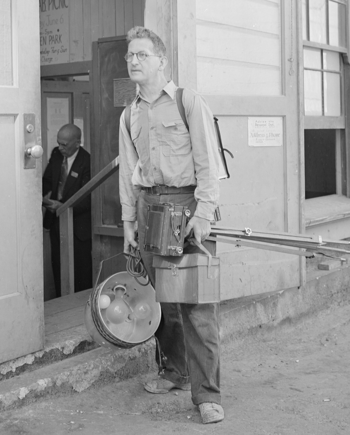 George Cedric Wright, Radiation Laboratory photographer and mentor and close friend to Ansel Adams. Photograph taken May 17, 1943. Principal Investigator/Project: Analog Conversion Project